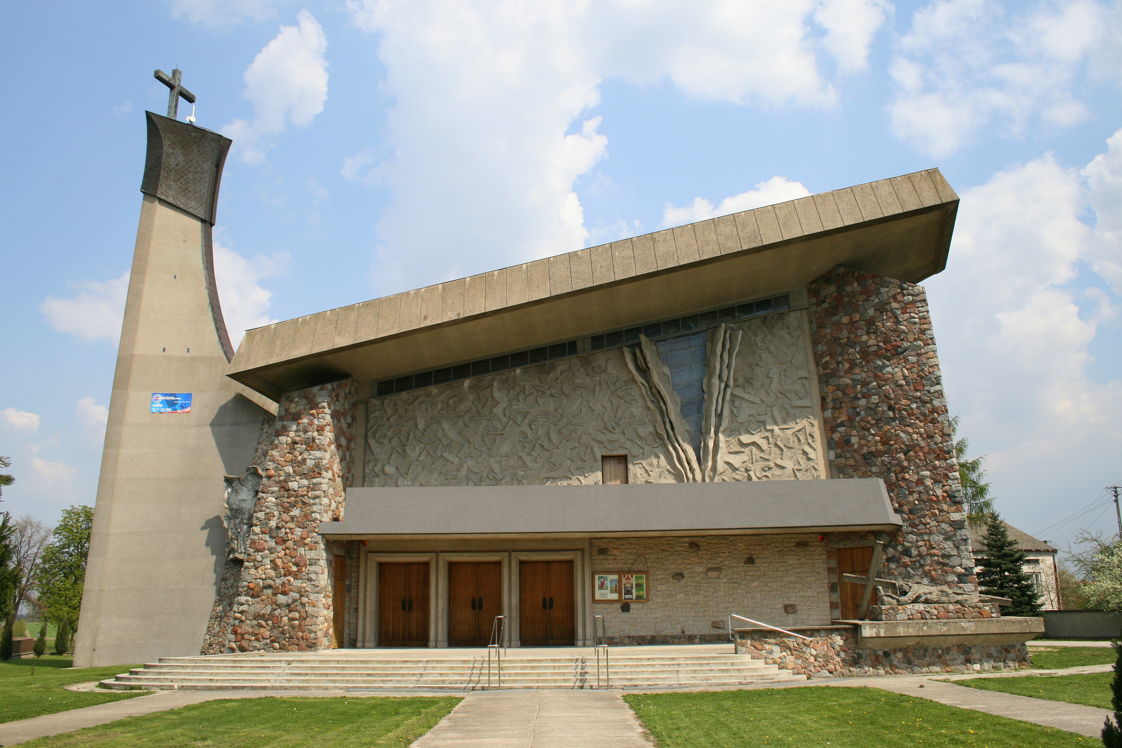 Church Saint Joseph in Wołyńce